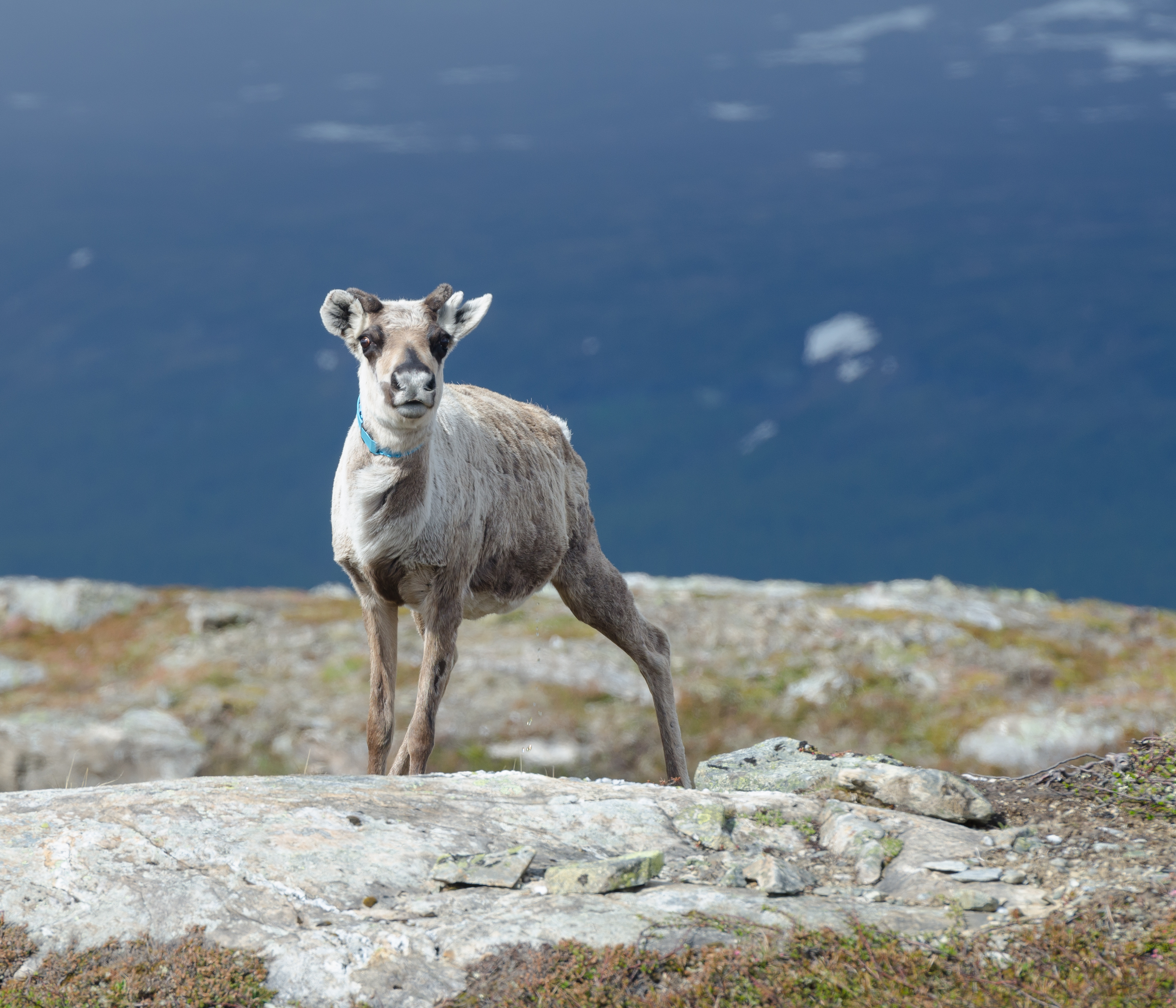 Reindeer (Rangifer tarandus) at Mount Torkilstöten, in Ljungdalen, Berg Municipality, Jämtland County, Sweden.